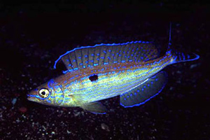 Picture of Spicara smaris